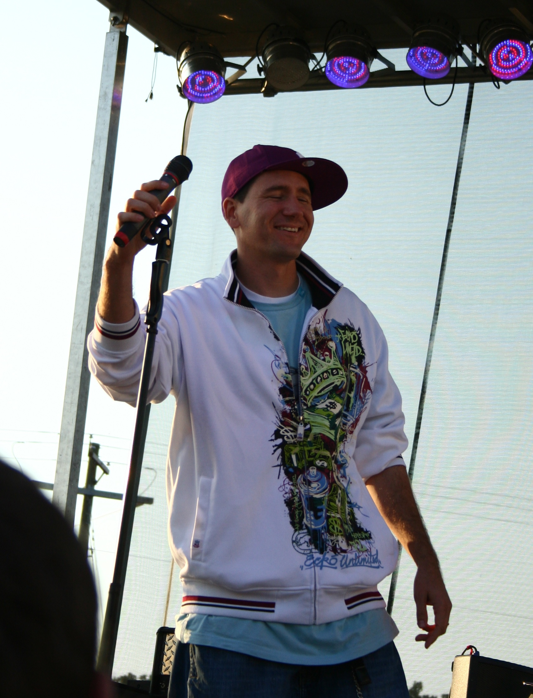 Christian rapper KJ-52 performing at the NextFest concert in North Carolina, October 2008.